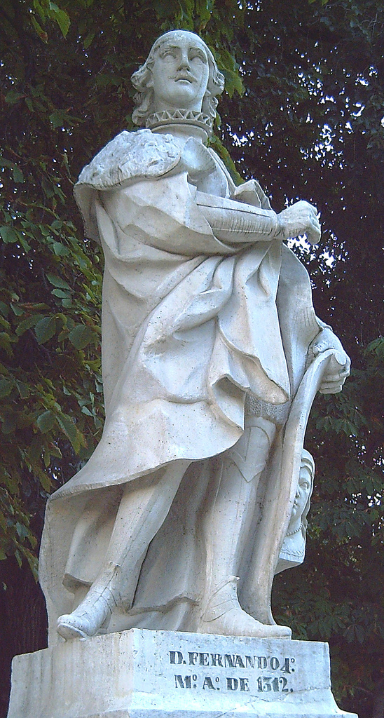 Statue of Ferdinand IV of Castile, the Summoned (1285–1312), at the Paseo de la Argentina (a walk) in the Retiro Park (Jardines del Buen Retiro), in Madrid (Spain). Sculpted in white stone by François de Vôge between 1750 and 1753.